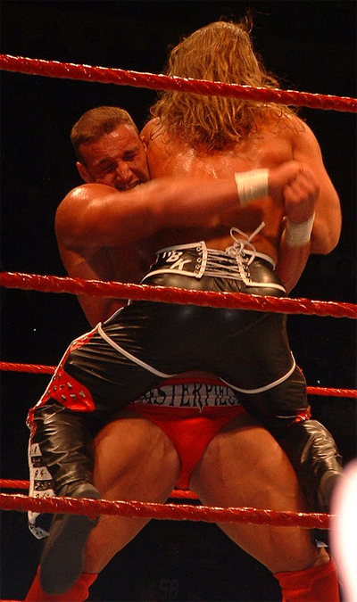 Chris Masters locks Shawn Michaels in a bearhug during a WWE house show held at the MEN Arena in Manchester, United Kingdom on November 17, 2005.